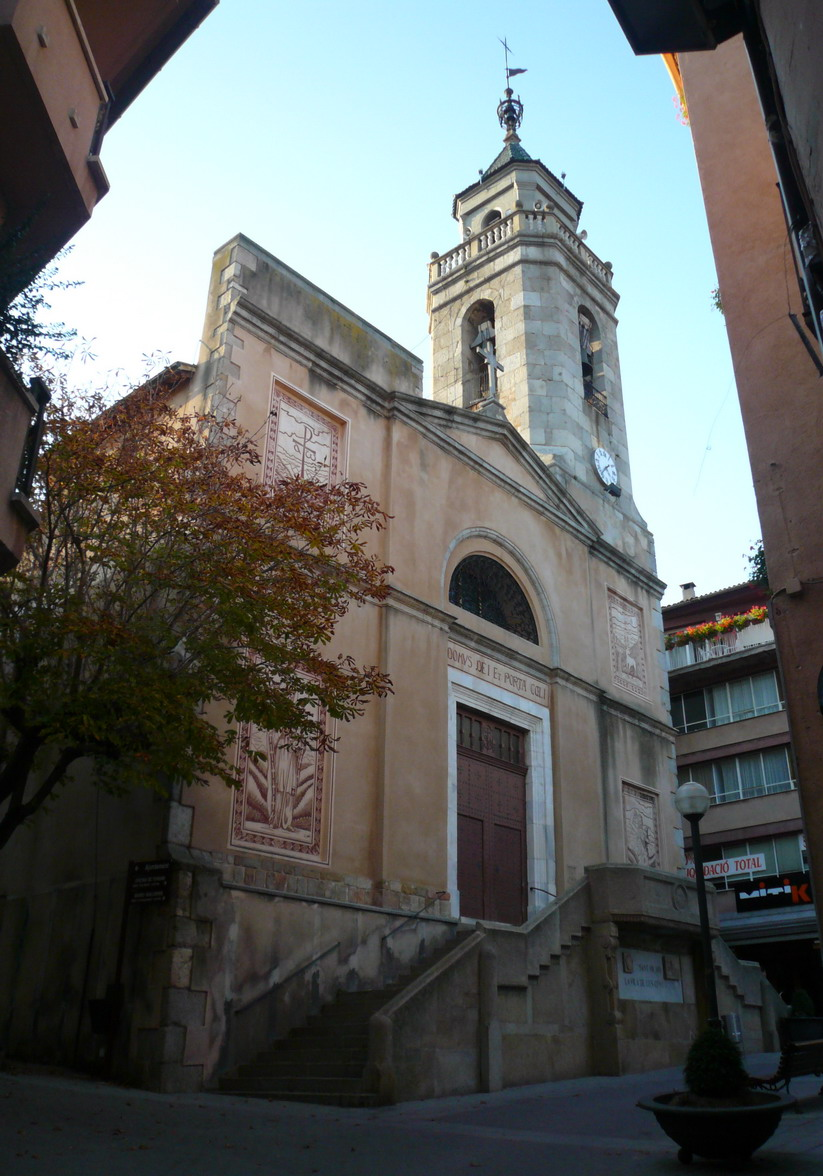 Church in Sant Hilari Sacalm, la Selva, Catalonia